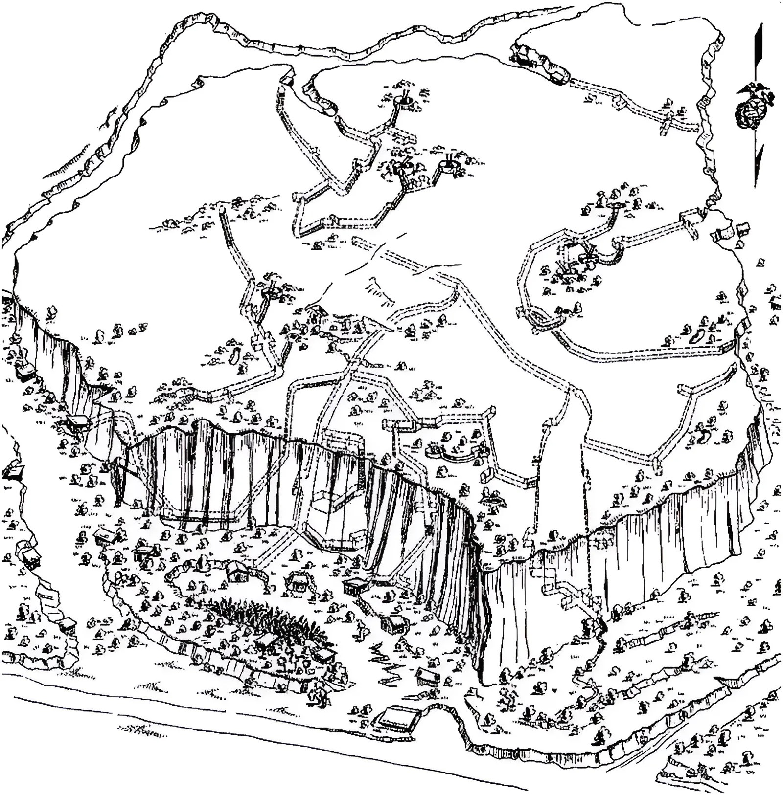 HILL 362A on Iwo Jima looking at top and north face. Dotted lines indicate the underground Japanese tunnel system. One of five sketches prepared by the 31st U.S. Naval Construction Battalion.